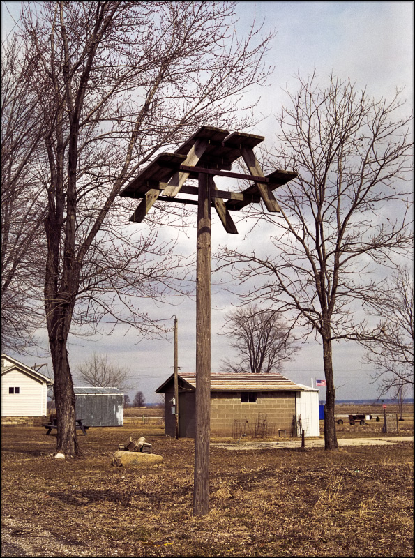 Meyer is located on the Mississippi and plagued by catastrophic flooding periodically.